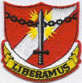 467th Bombardment Group World War II emblem downloaded from 467th Bomb Group Web Page